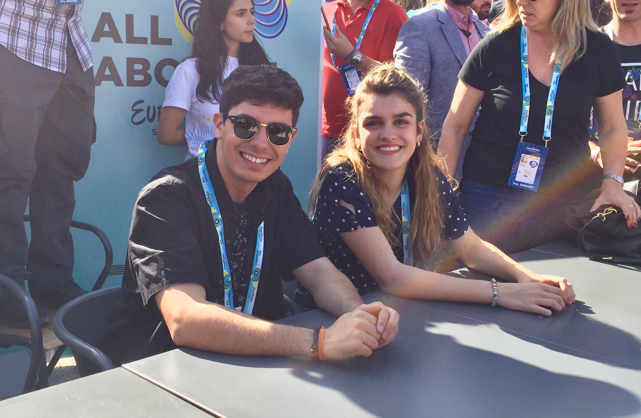 Spanish singers Alfred García & Amaia Romero in Lisbon during the Eurovision Song Contest 2018